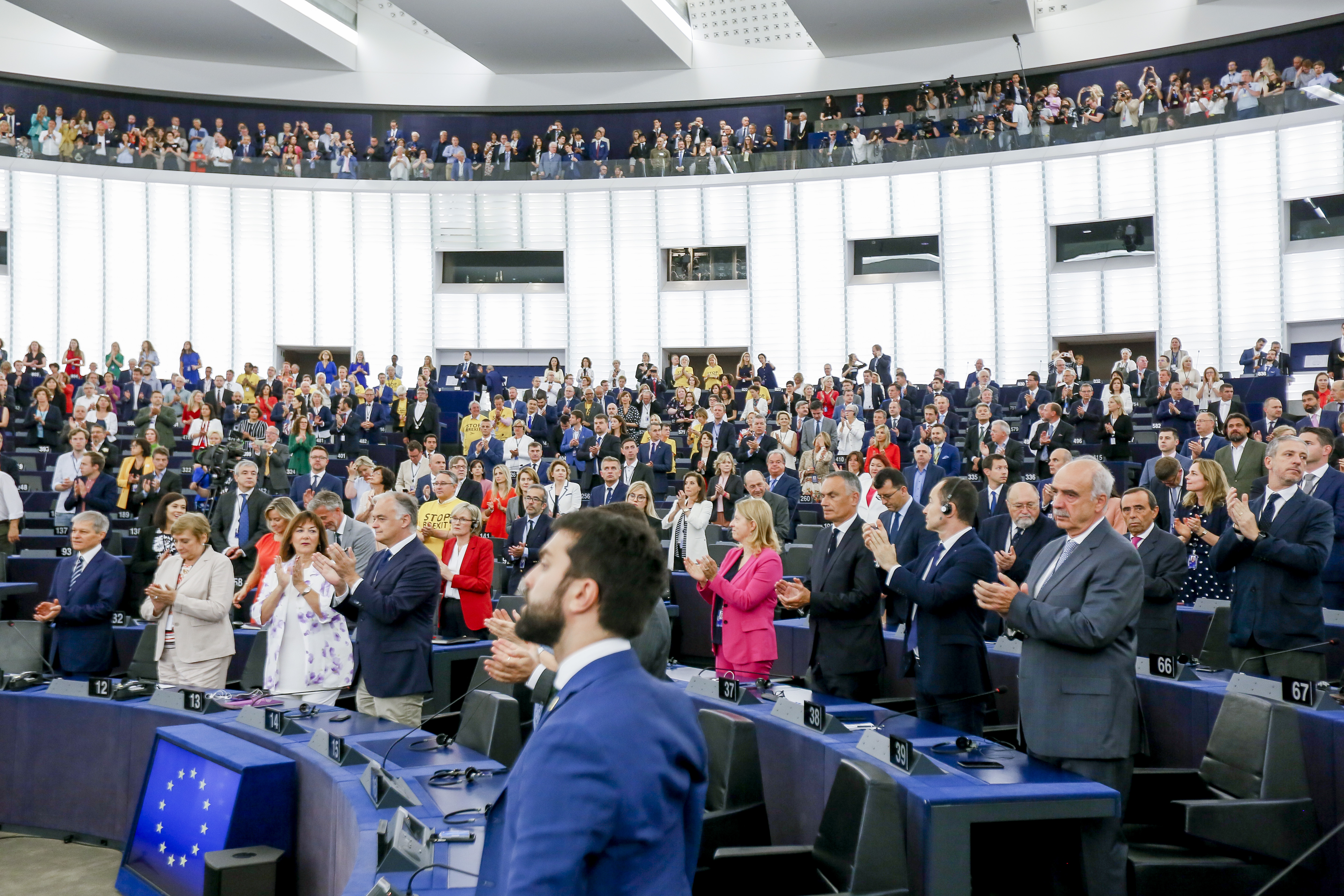 Read more: 9th European Parliament since first direct elections in 1979 starts today MEPs elected from 190 political parties in 28 member states 61% new MEPs 60% men, 40% women This photo is free to use under Creative Commons license CC-BY-4.0 and must be credited: "CC-BY-4.0: © European Union 2019 – Source: EP". No model release form if applicable. For bigger HR files please contact: webcom-flickr(AT)